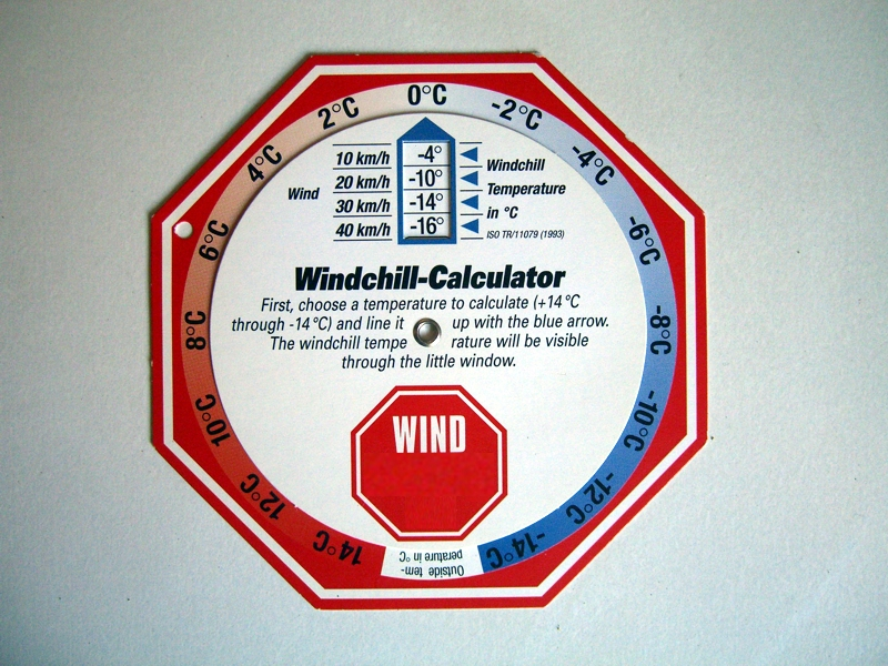 Windchill calculator: manual cooling chill temperature index, based on wind speed.